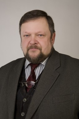 Giedrius Petruzis, Director of the International Institute of Political Sciences (Klaipeda, Lithuania)